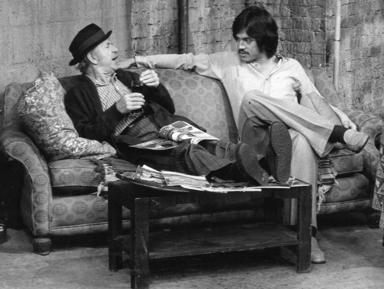 Publicity photo from Chico and the Man . Pictured are Jack Albertson and Freddie Prinze.